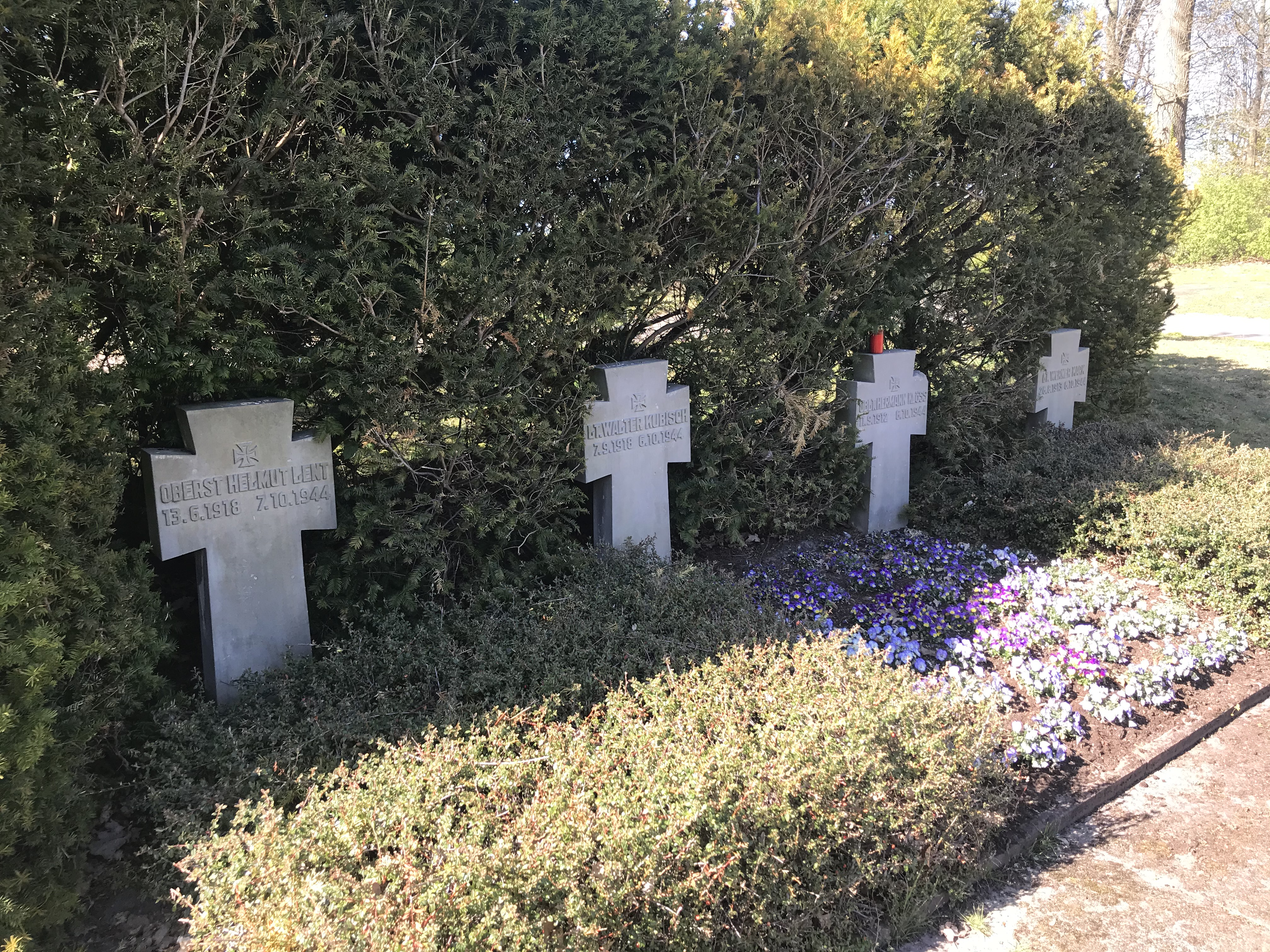 The former Garrison Cemetery (Garnisonsfriedhof) in Stade, Lower Saxony, Germany. Grave of Helmut Lent, Walter Kubisch, Hermann Klöss and Werner Kark